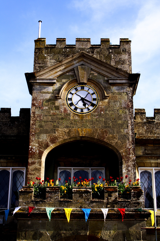 Shaftesbury Town Hall